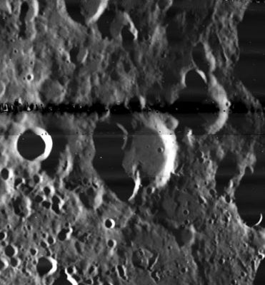 Mosaic image from Lunar Orbiter 5's 5024-H2 and 5024-H3 from the Lunar & Planetary Institute.